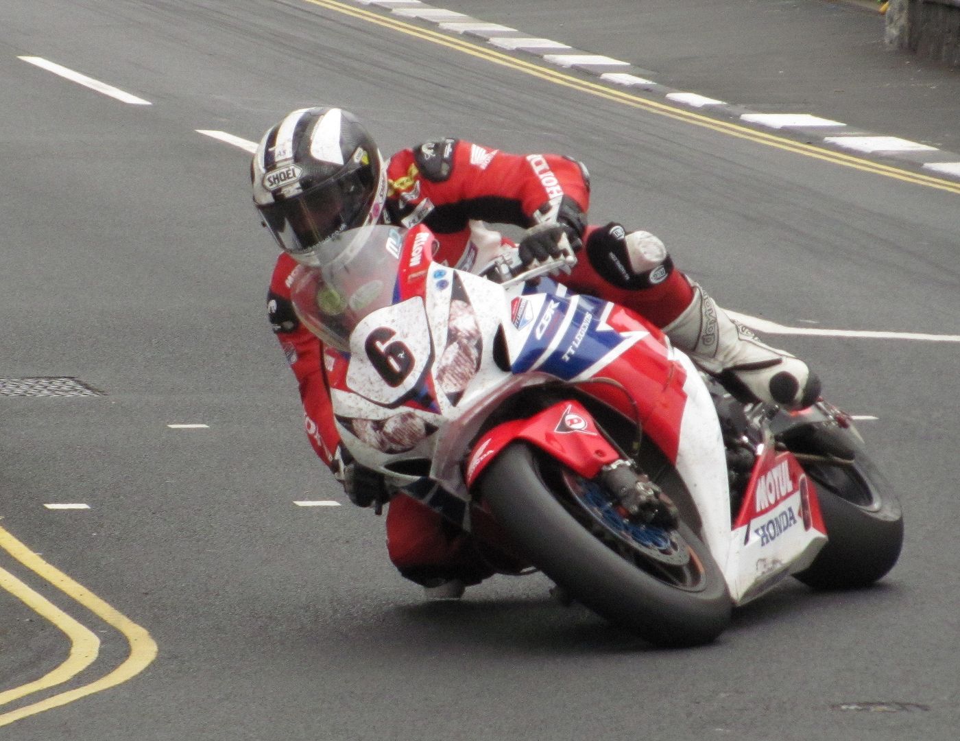 Superbike Race during the 2013 Isle of Man TT.